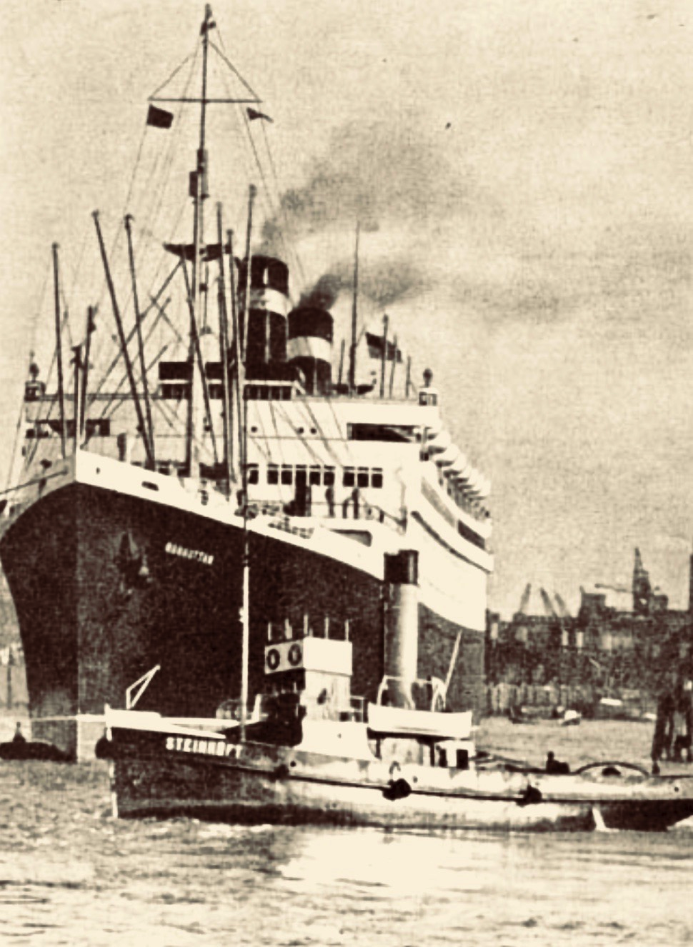 S.S. Manhattan in Hamburg harbor, Germany